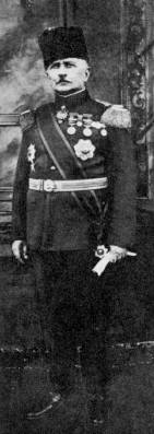 Turkish ambassador to Kabul Ömer Fahrettin Pasha. He served as the Commander of the Hejaz Expeditionary Force during World War I.